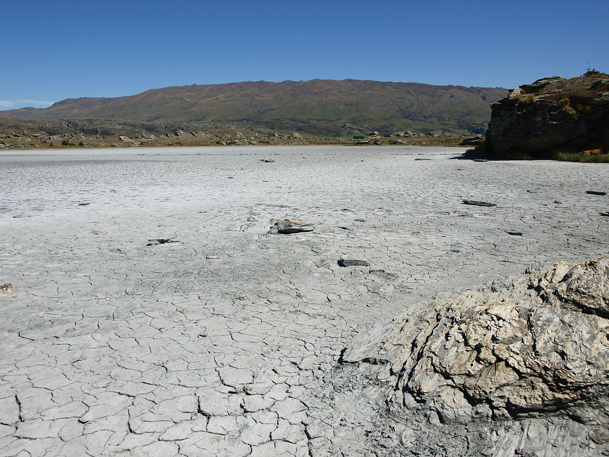 The Sutton Salt Lake is the only Salt Lake in New Zealand.